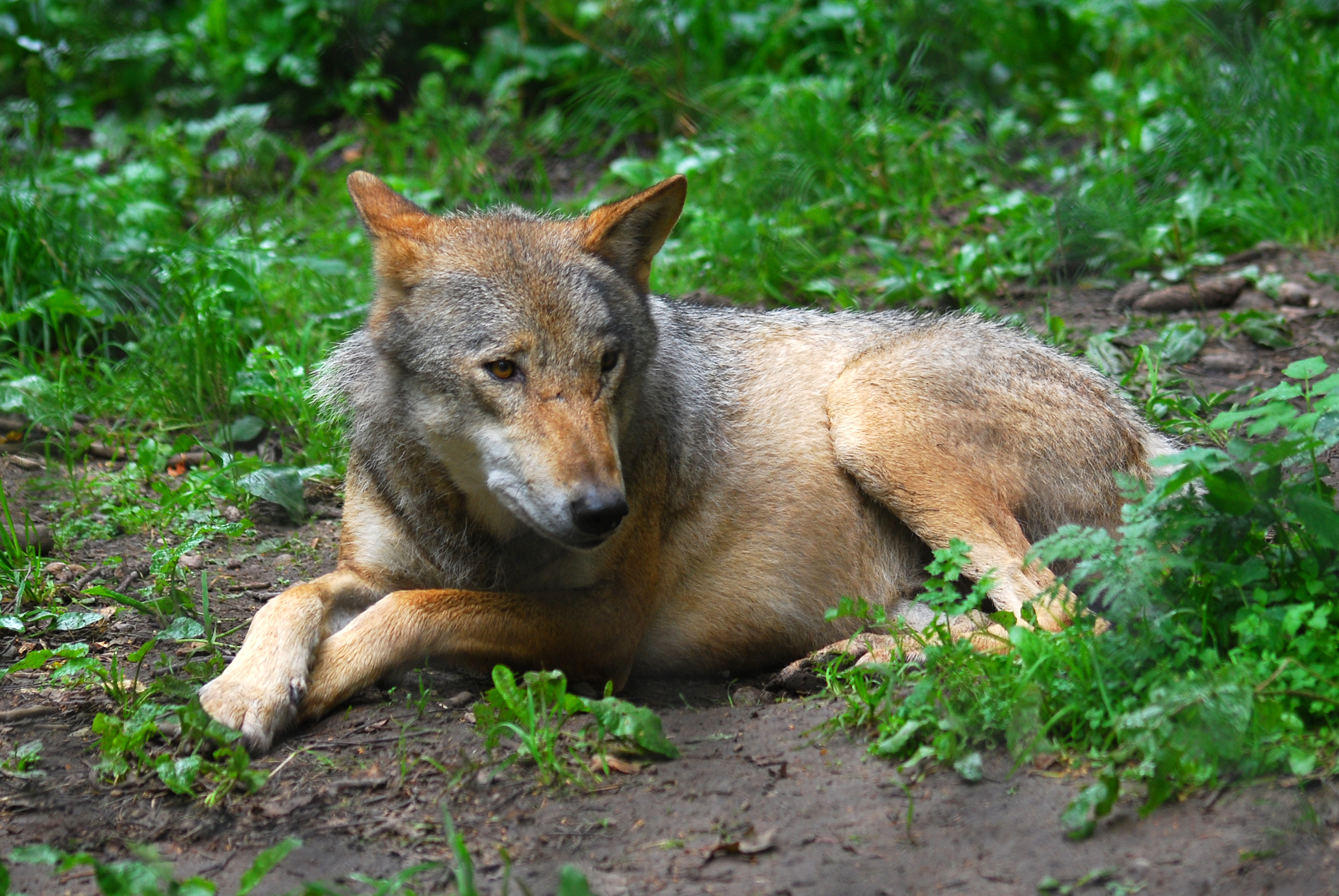 This photo from Podlaskie Voievodeship was taken during Polish Wikiexpedition 2009 set up by Wikimedia Polska Association. The making of this document was supported by Wikimedia Polska. Canis lupus